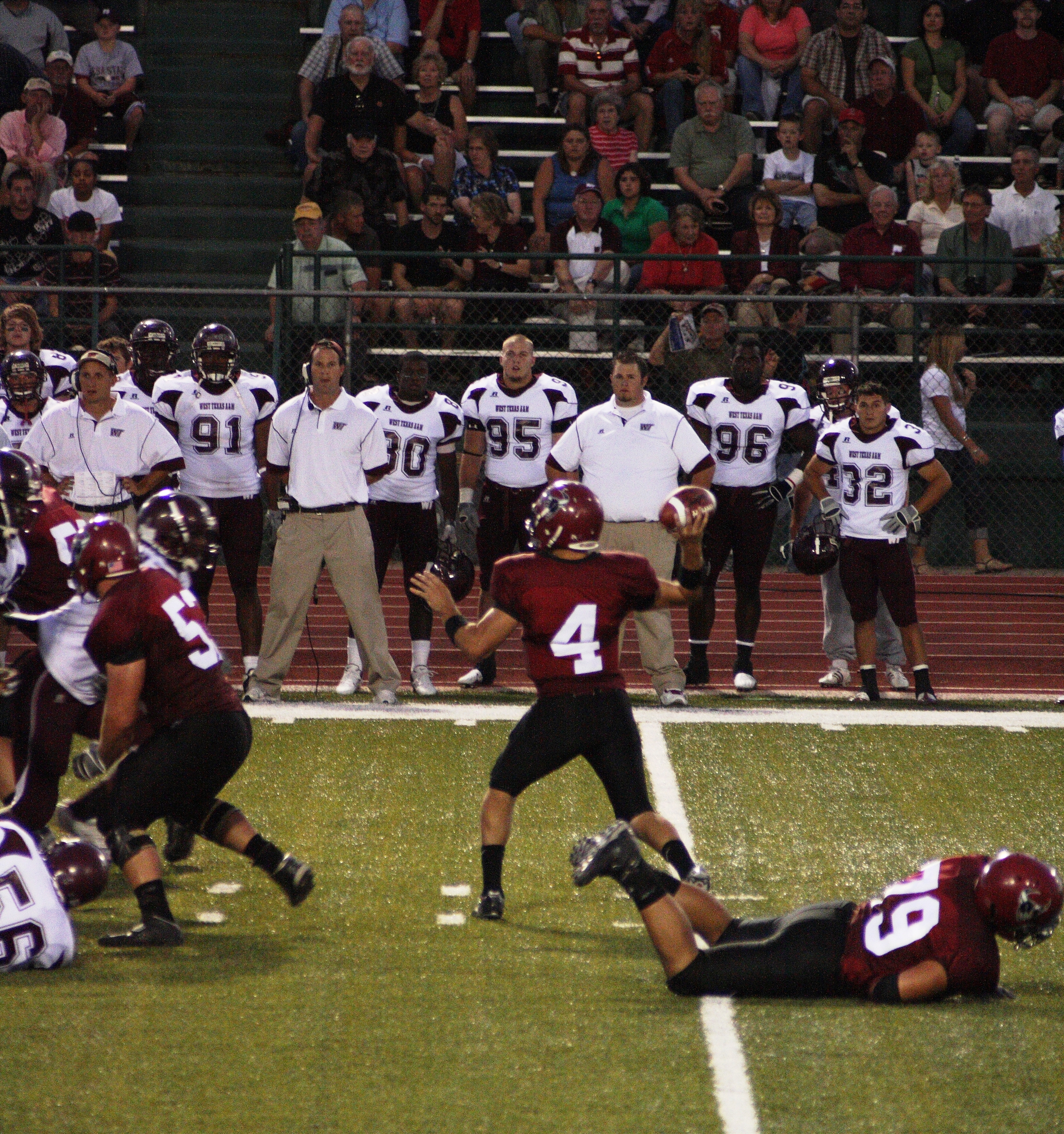 Mesa State College's football team playing against the West Texas A&M Buffaloes on August 28, 2008.